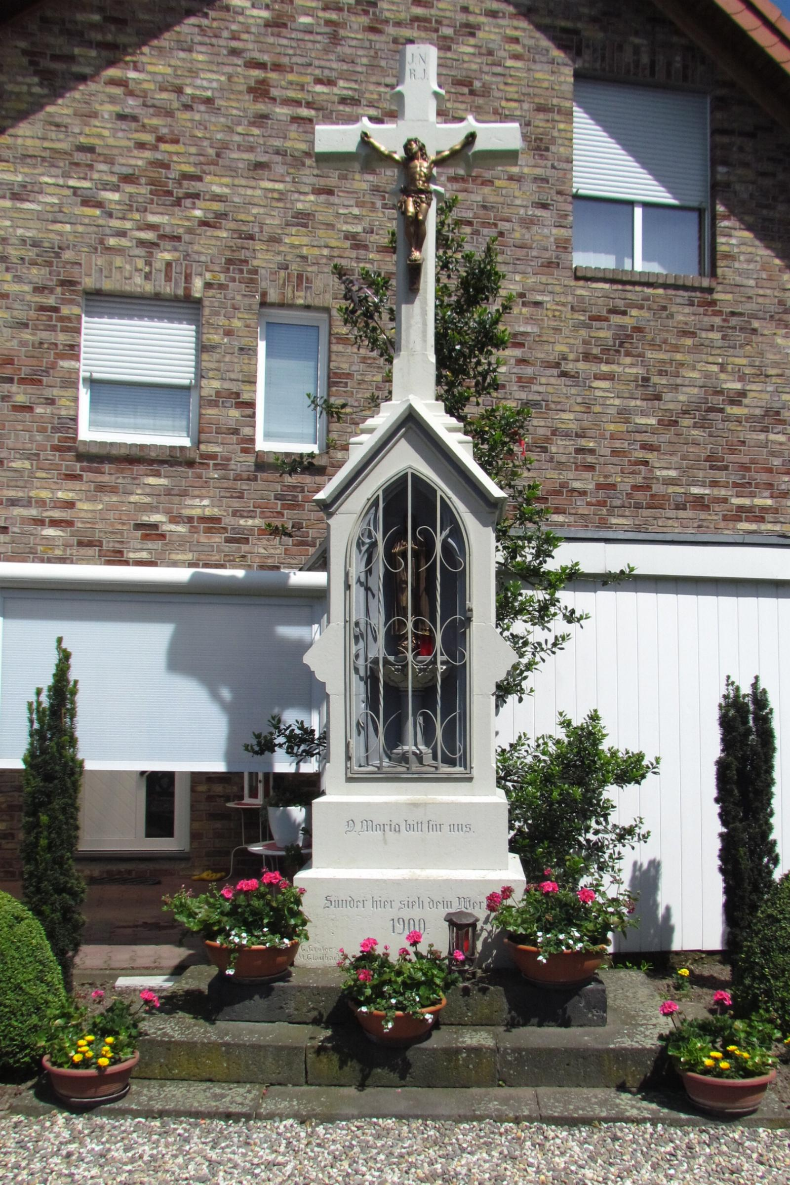 This is a photograph of an architectural monument.It is on the list of cultural monuments of Korschenbroich